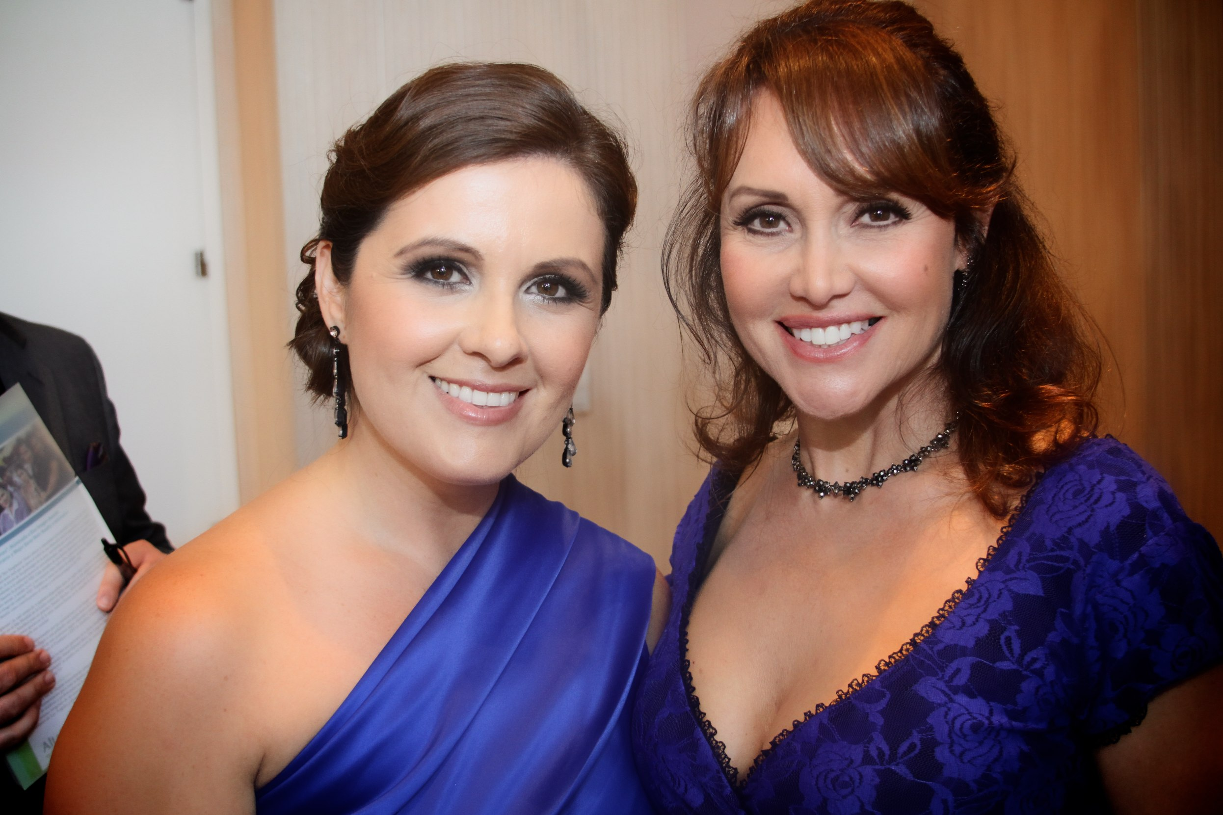 Hilda Sandoval (left) and Eliana Alexander from the TV show Sin Vergüenza at the 2013 Imagen Foundation Awards